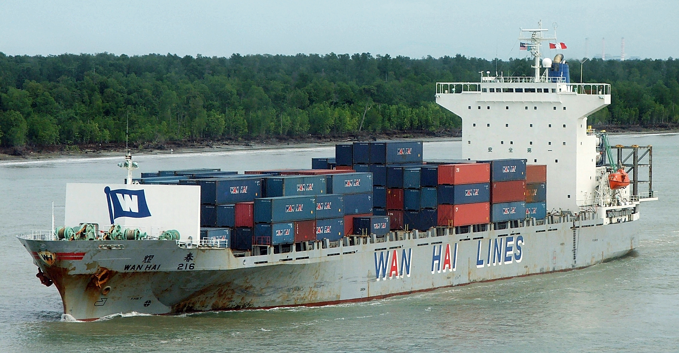 Container vessel 'Wan Hai 216' leaving Port Kelang in Malaysia